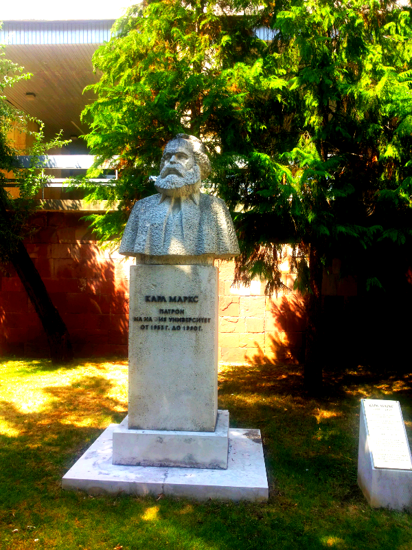 Bust of Karl Marx at the University of National and World Economy in Sofia, Bulgaria